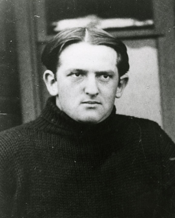 D. F. Edwards, OSU